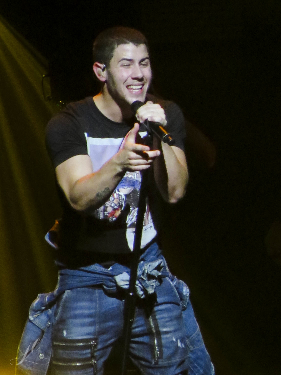 Nick Jonas performs at the Pepsi Center during the Future Now/Honda Civic Tour stop in Denver, CO on August 9, 2016.